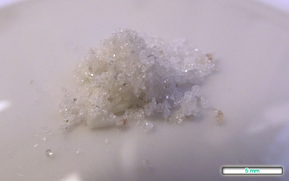 Photo of Resorcinol, (almost) pure